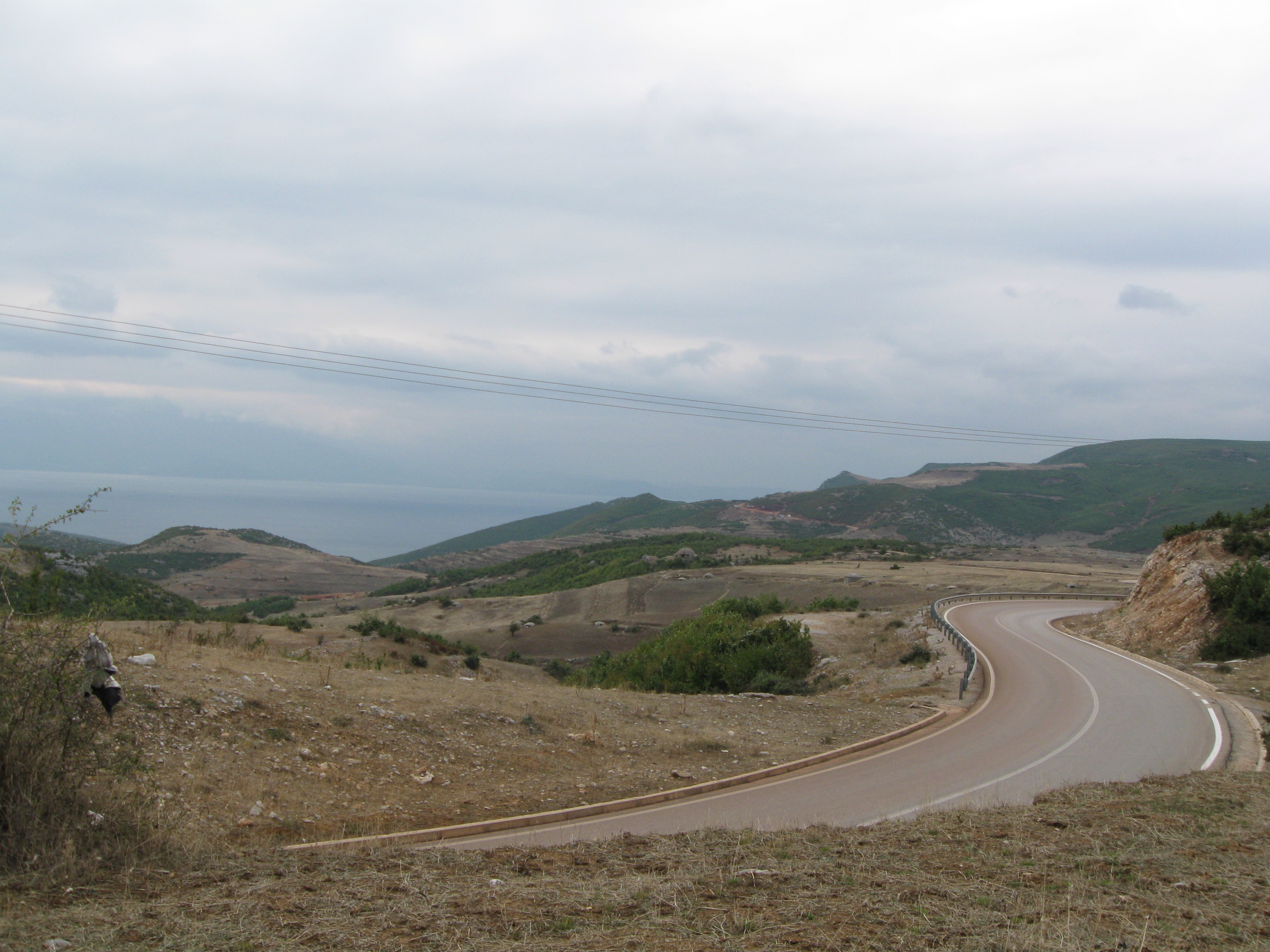 Hoxha's legacy - bunkers scattered everythere